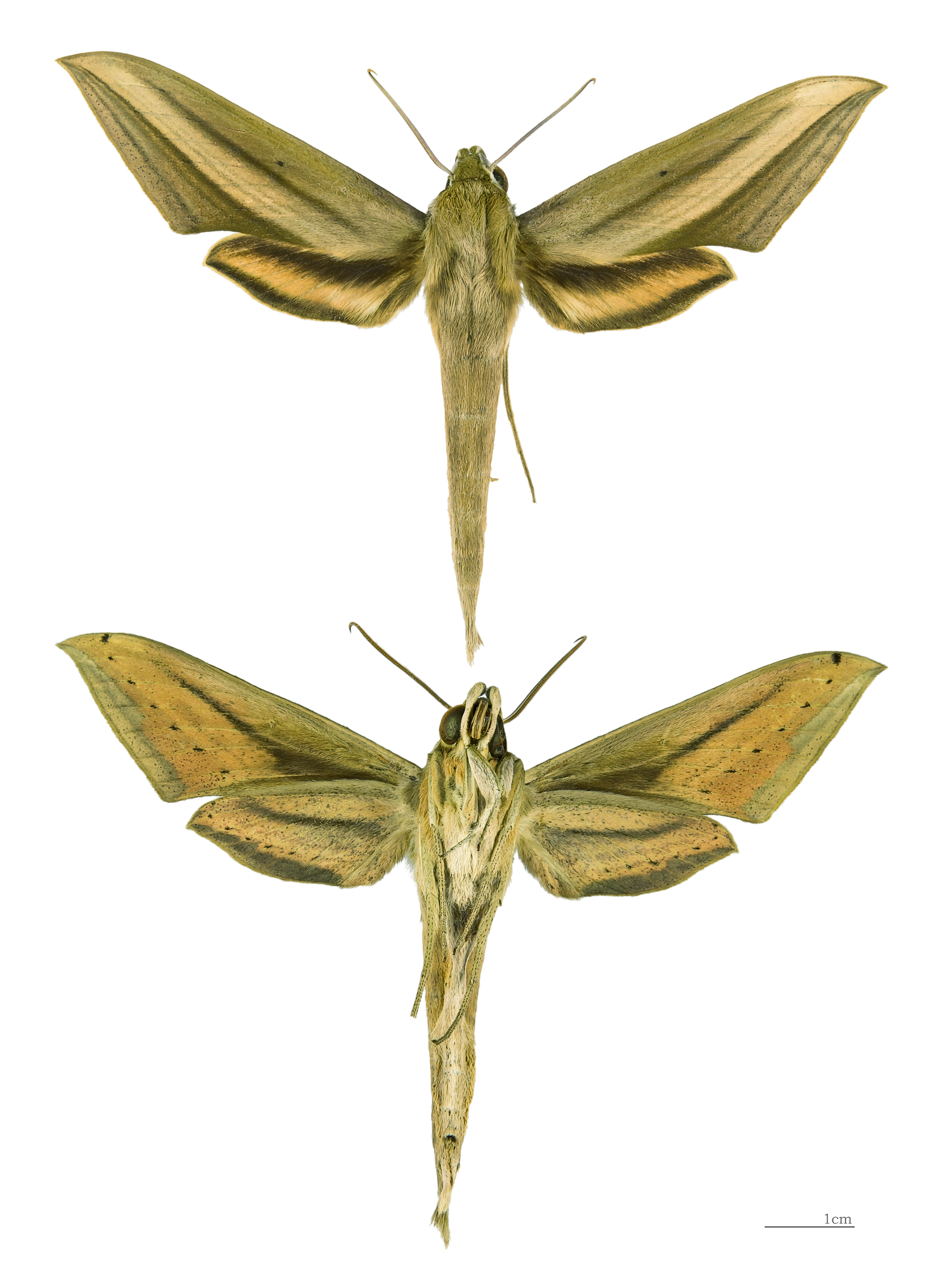 Xylophanes loelia - Two views of same specimen